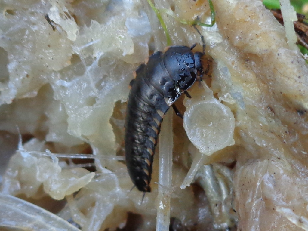 Larva of Silpha tristis. Found in Riga town, Latvia